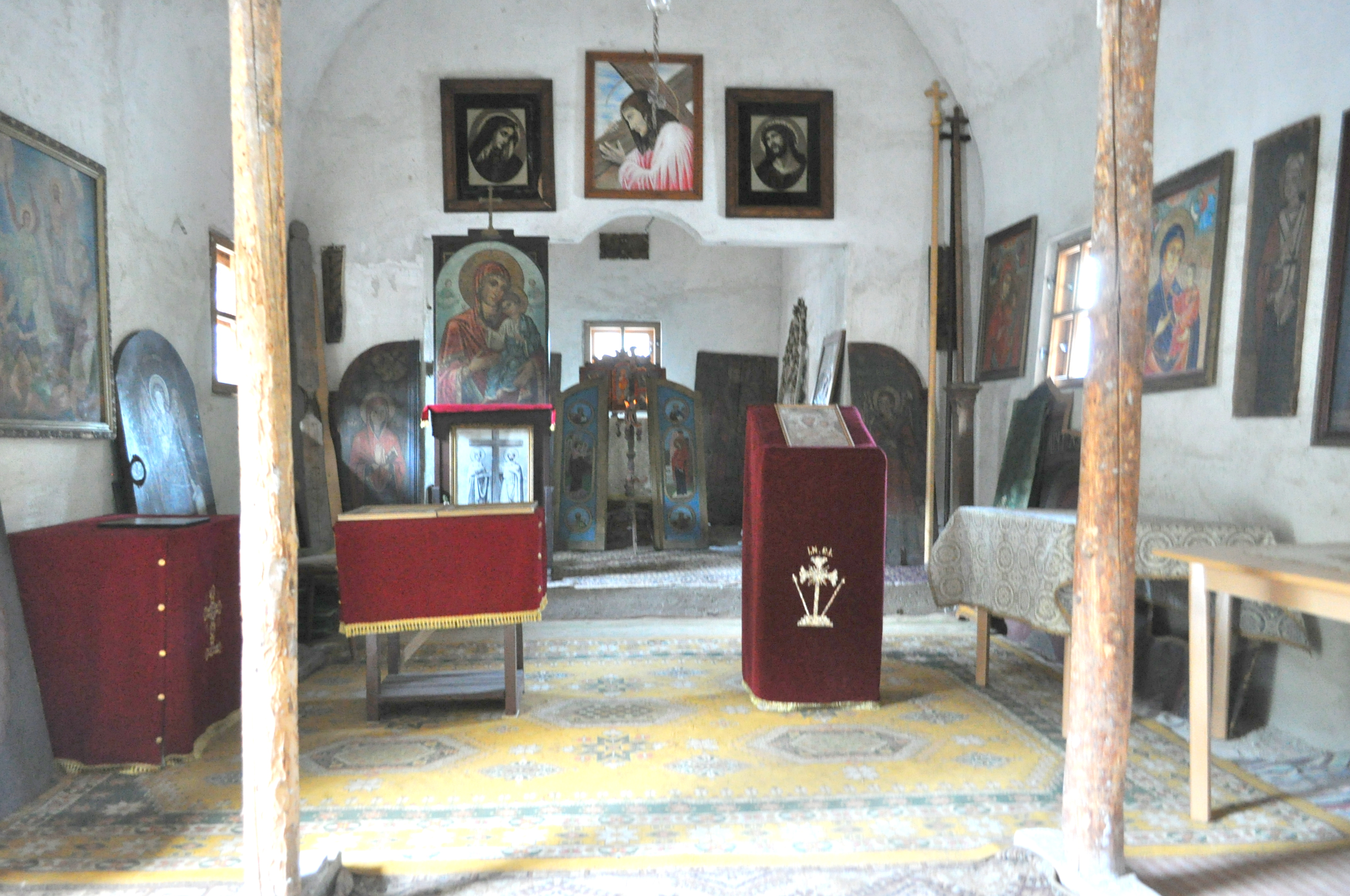 the Izbuc Orthodox monastery near Călugări village, Codru-Moma Mountains, Romania